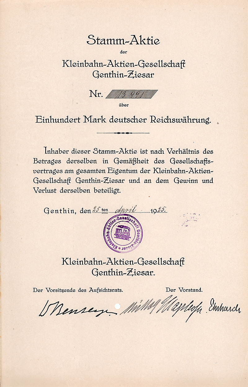 Share of the Kleinbahn-AG Genthin-Ziesar, issued 25. April 1925